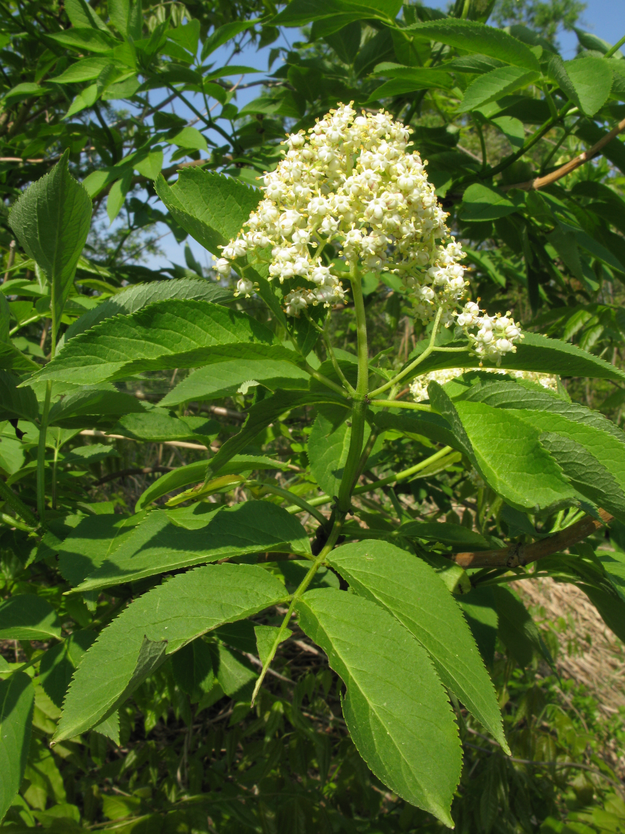 Sambucus sieboldiana, Aizu area, Fukushima pref., Japan